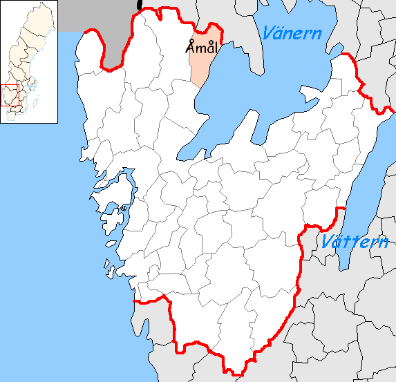 Åmål Municipality in Västra Götaland County Designed by me. Mere outlines are a PD source from